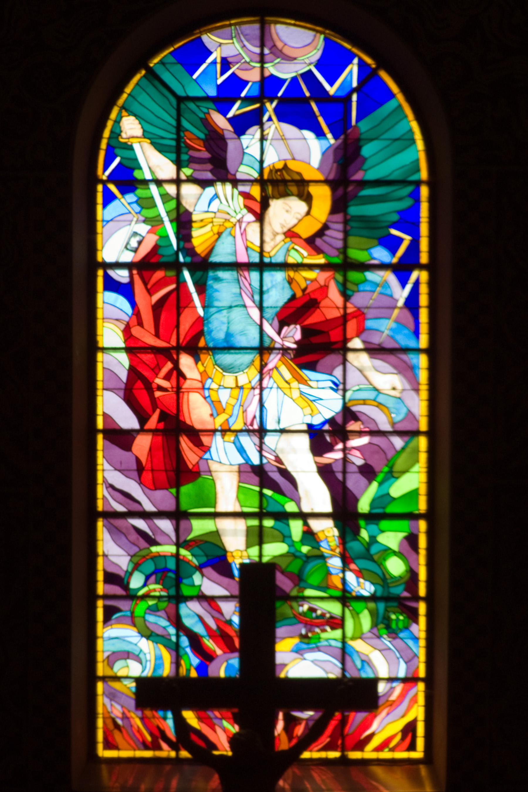 Large stained-glass window above the main altar Church of St.. Michael the Archangel. The church was built according to the design of Oskar Sosnowski from 1930. Picture done by the window closed the church.